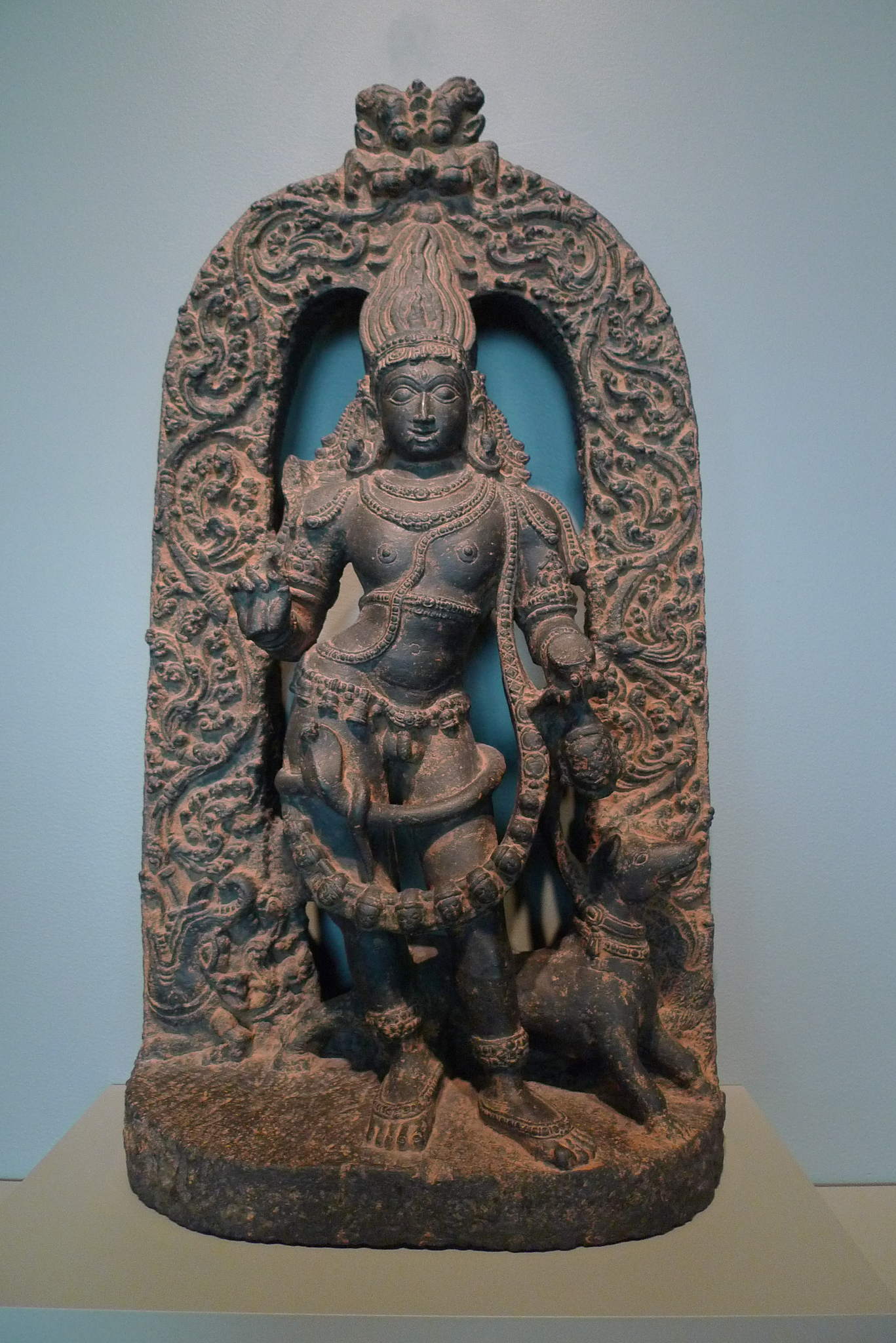 From the permanent collection of the Asian Art Museum in San Francisco.